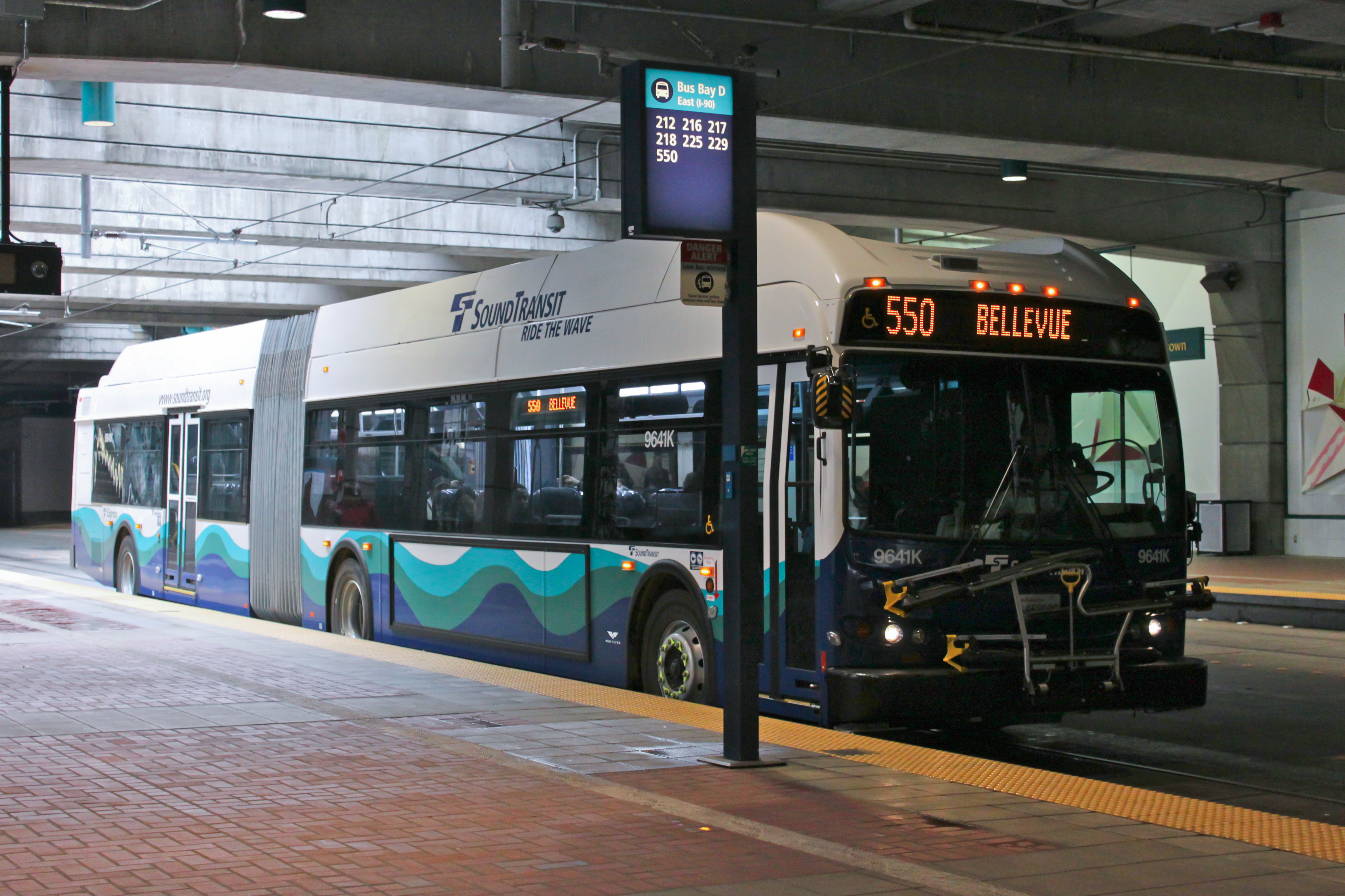 One of Sound Transit's New Flyer DE60LFR coaches (numbered 9641 and assigned to King County Metro) on route 550 serving International District Station in the Downtown Seattle Transit Tunnel.